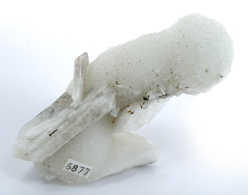 Barrerite, Quartz Locality: Rocky Pass, Kuiu Island, Sitka Borough, Alaska, USA (Locality at ) Size: small cabinet, 7.5 x 5.4 x 2.5 cm Barrerite on Quartz A 7.0 cm tall quartz stalactite of sparkling, snow white, drusy quartz, is the host for a few crystals of pearlescent barrerite, to 3.75 cm in length, a rare member of the zeolite family. Rarer still, this was from a one time discovery in Alaska. I recall when they came out, and a single dealer had a table or two full of them at one of the hotel mineral shows run by Marty Zinn. Superb!